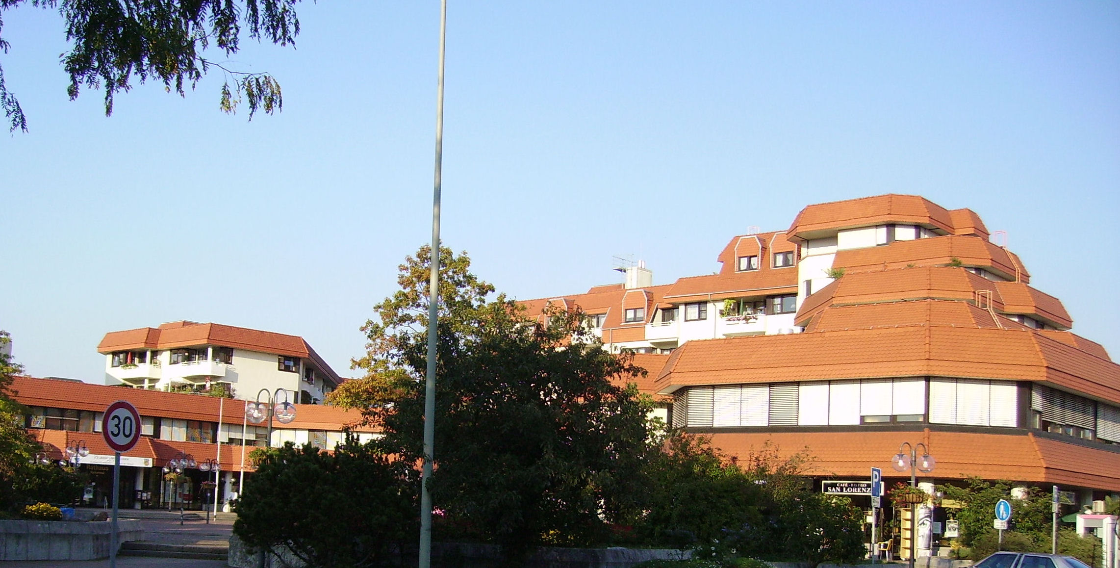 Burgunderplatz, Limburgerhof, Rheinland-Pfalz (Germany)